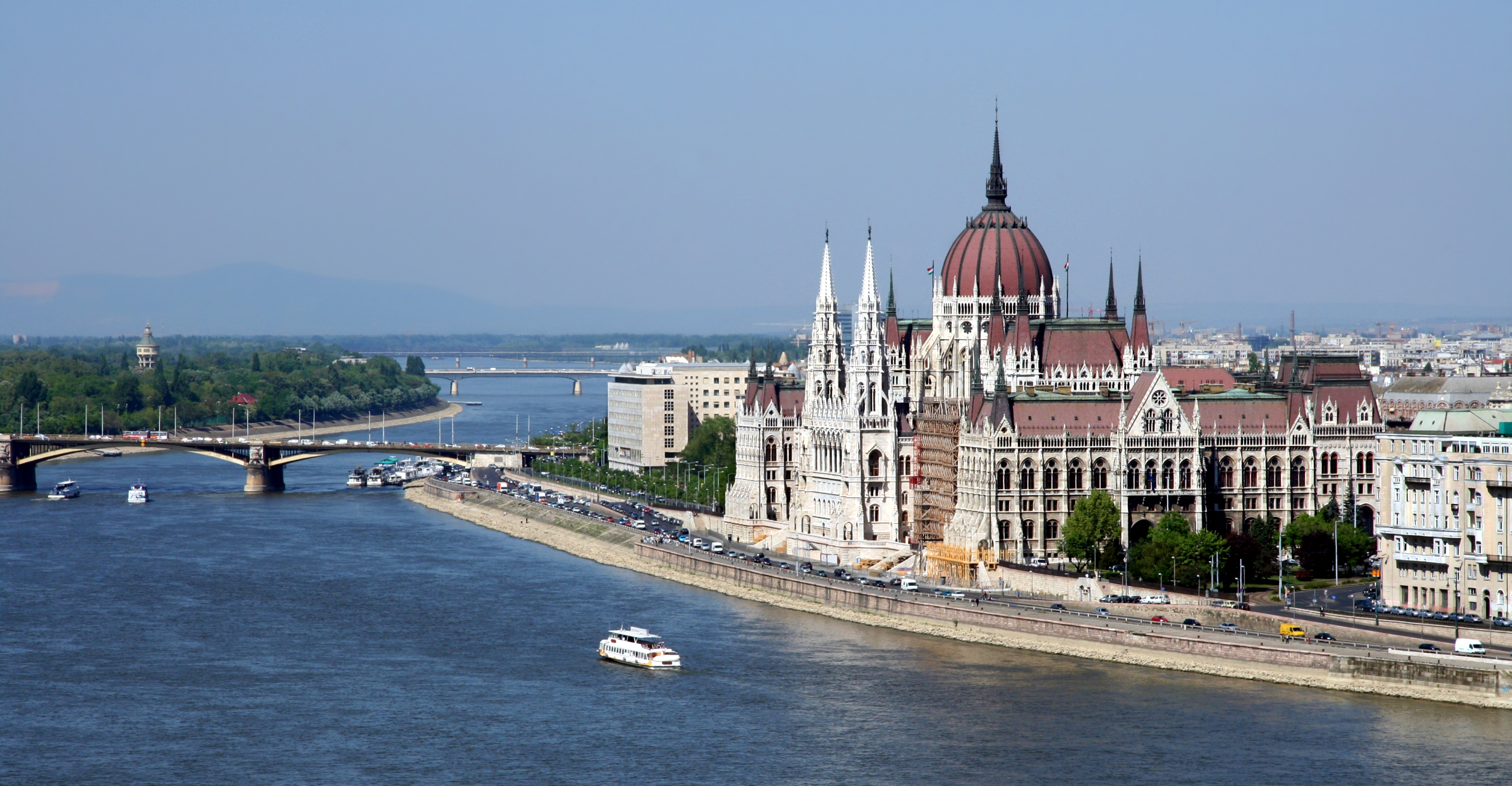 Budapest Parliament.